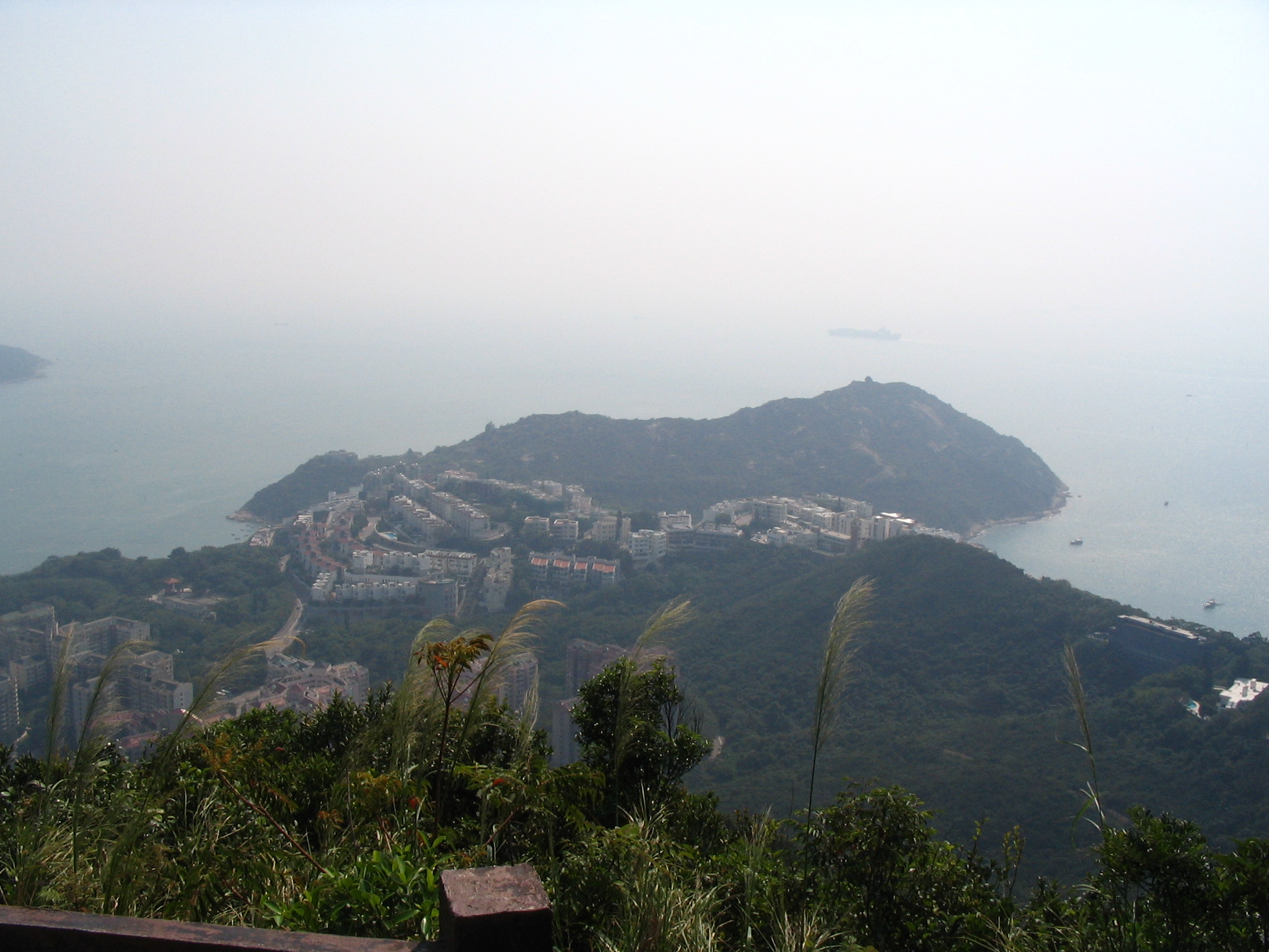 Photo of Chung Hom Kok